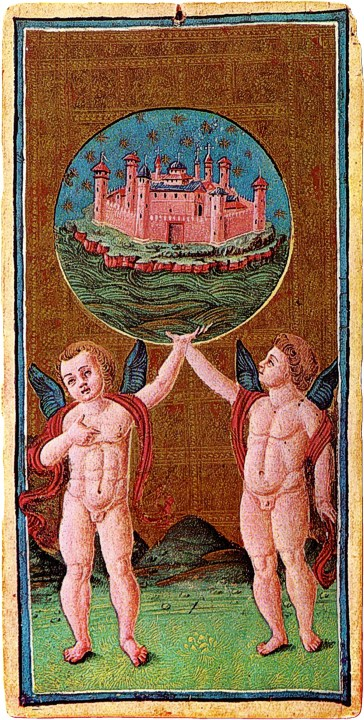 The World card from the Visconti-Sforza Tarot deck.